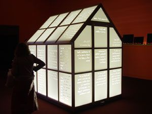 documenta 12